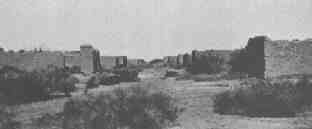 The ghost town of La Paz, Arizona, circa 1890.